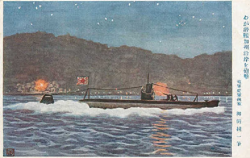 Postcard of a painting by Junichi Mikuriya of a Japanese submarine shelling the California coast